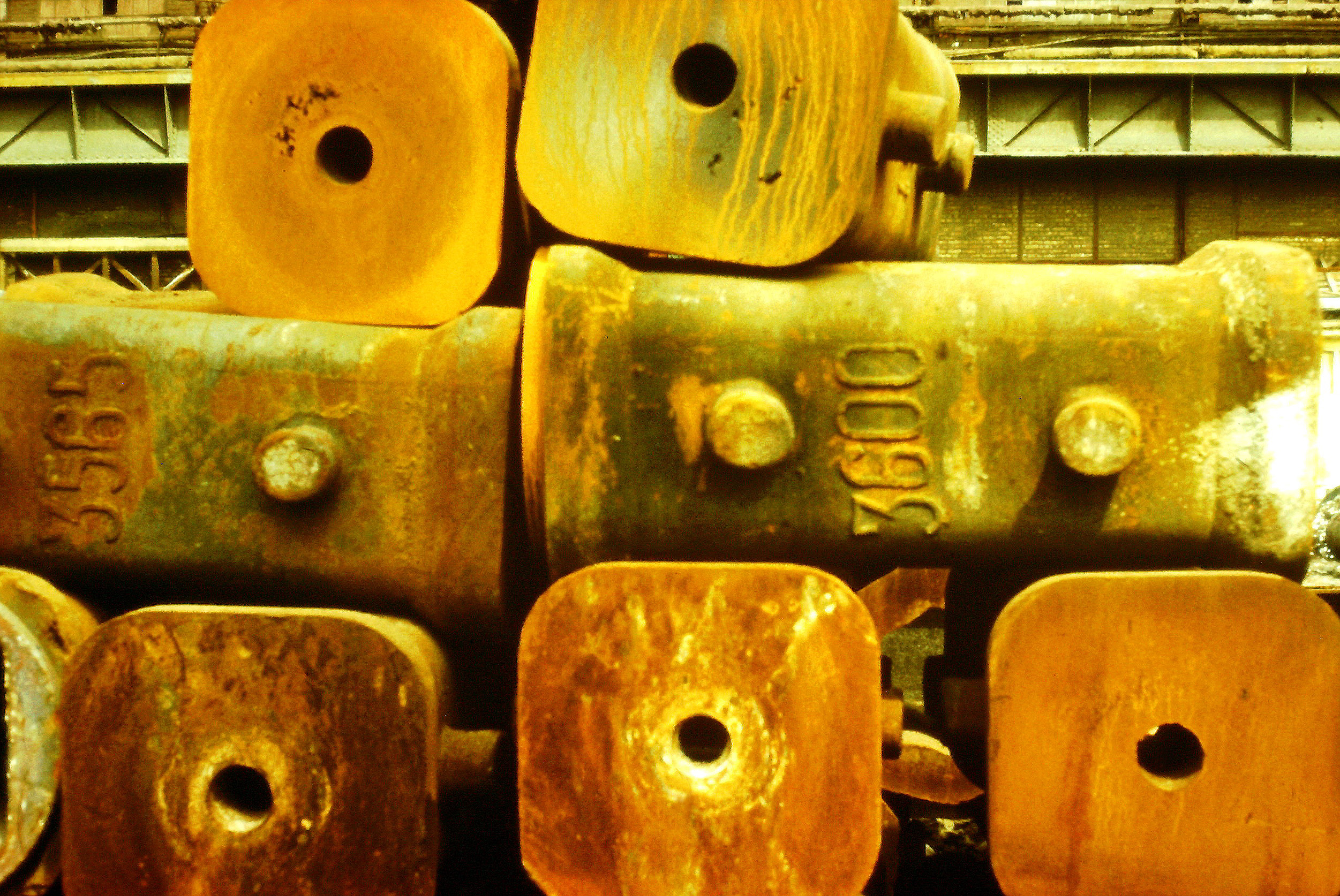 Ingot moulds in the Diósgyőr Steelworks in 1977. Miskolc, Hungary